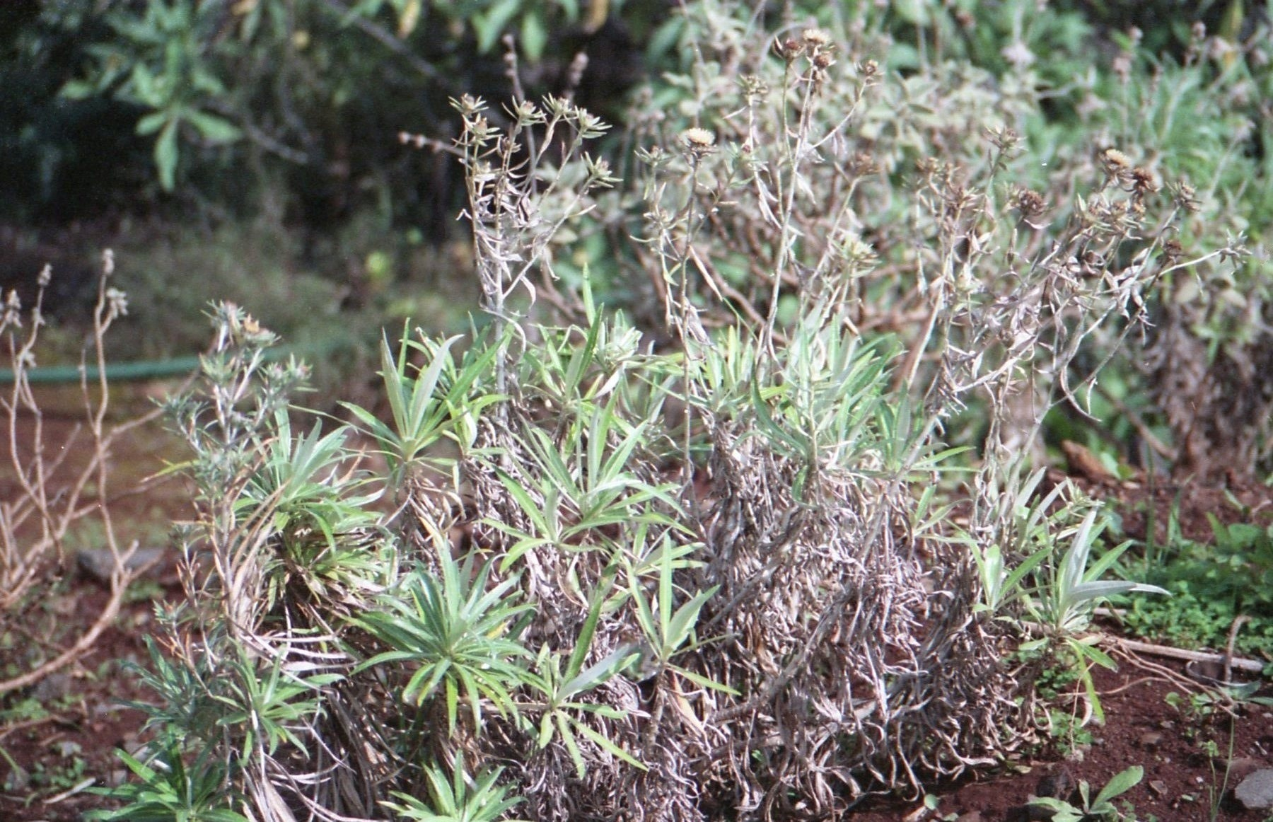 Carlina salicifolia